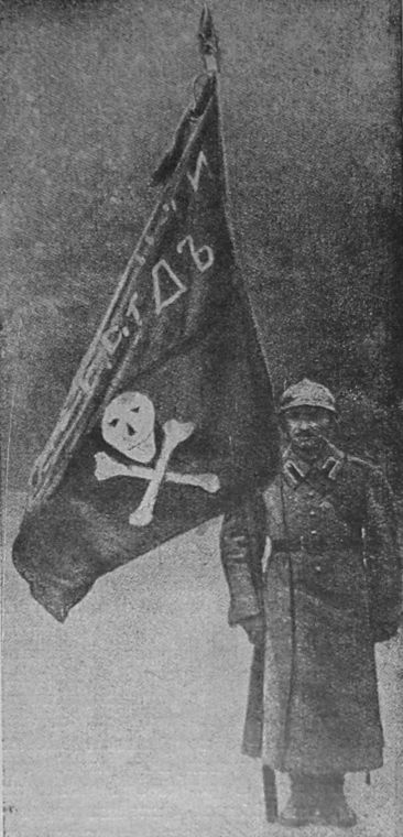 The banner of Kornilov's Shock Detachment of the Russian Imperial Army during WWI (Kerensky Offensive). Then it became a part of the anti-Bolshevik Volunteer Army in Russia's Civil War from 1917 until 1920.